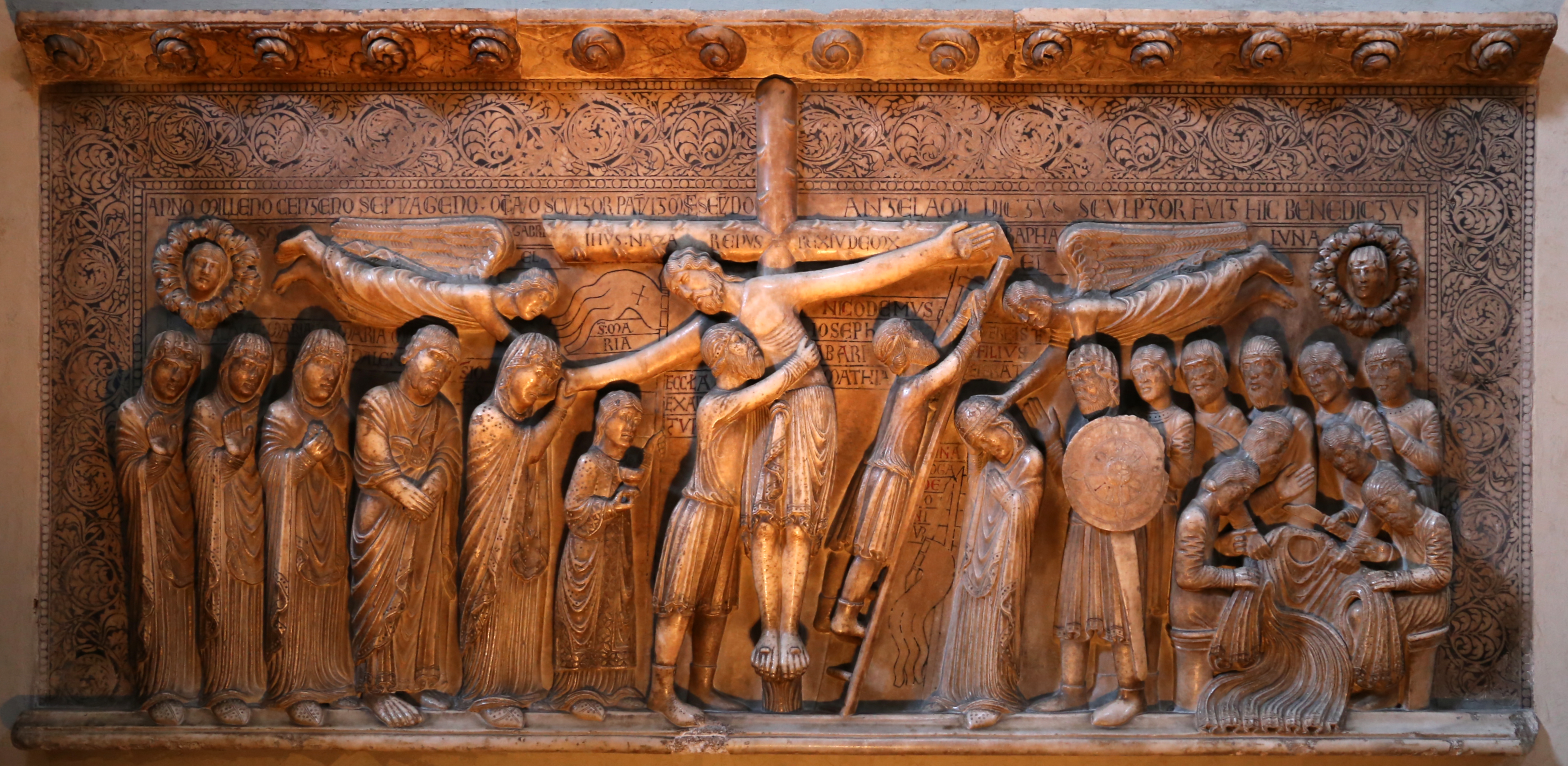 Cathedral (Parma) - Interior